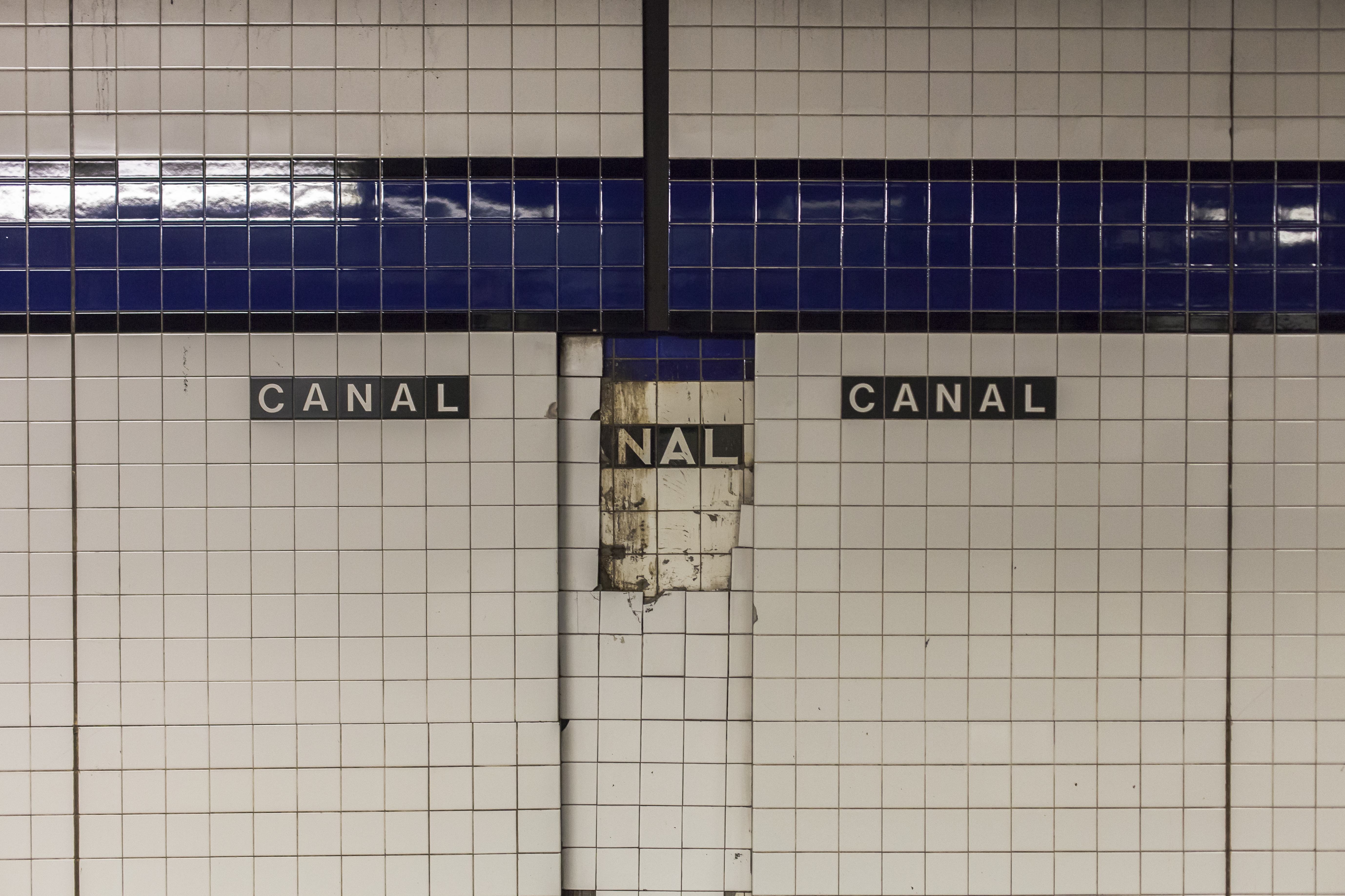 We paid for this.